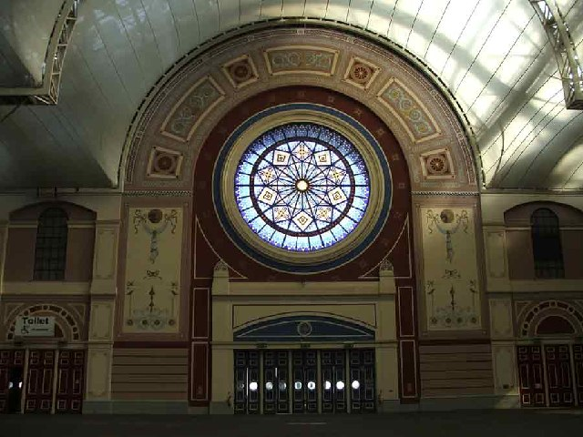 Great Hall Alexandra Palace. Magnificent stained glass window.